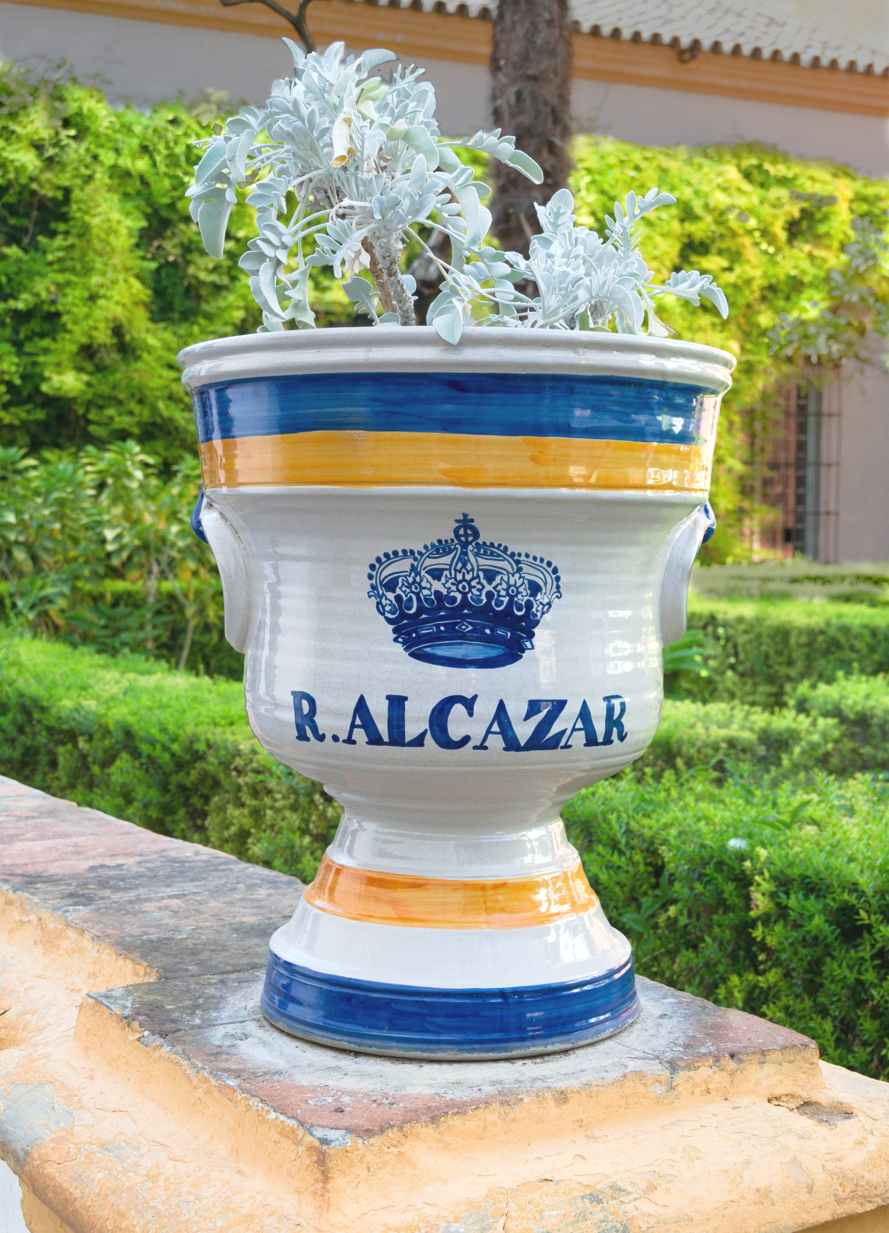 A garden vase, Gardens of the Alcazar of Seville, Spain.